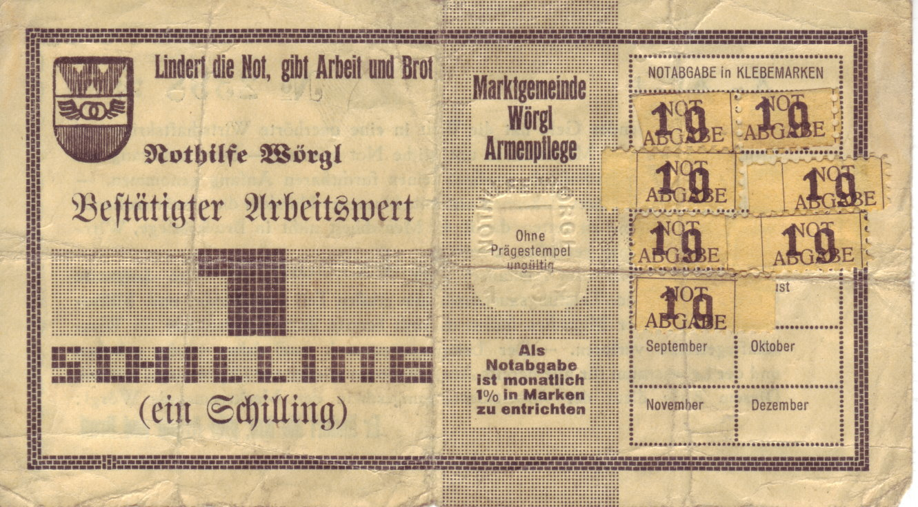 The 1 Schilling - bank note from the "Wörgler Schwundgeld"